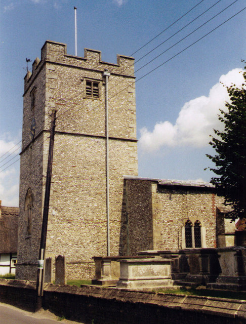 St Peter, St Mary Bourne, near to St Mary Bourne, Hampshire, Great Britain. Grade 1 listed building erected in the 12th century.